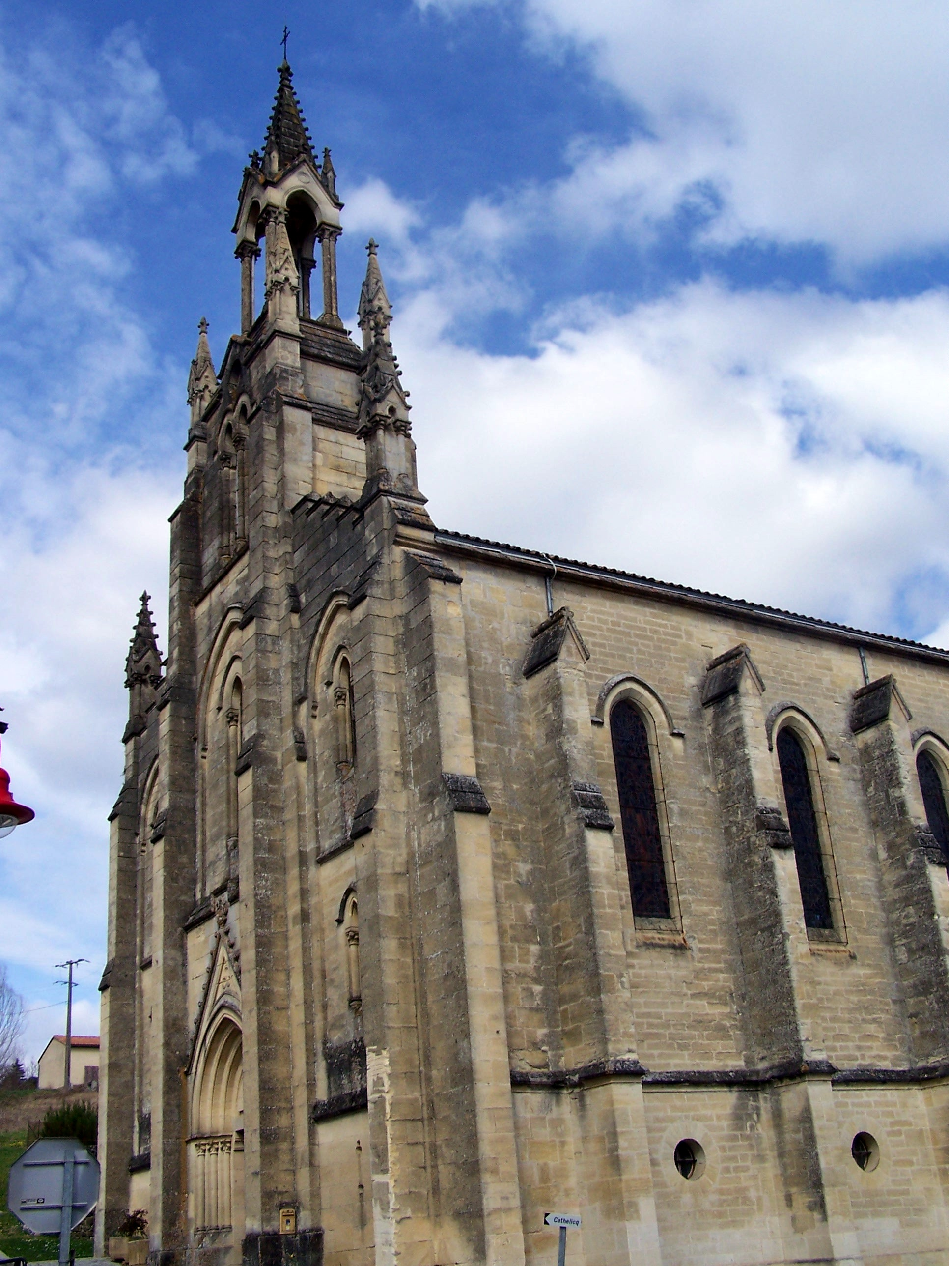 Church Notre-Dame de Lorette in Saint-Michel-de-Lapujade (Gironde, France)